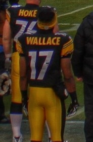 Mike Wallace of the Pittsburgh Steelers standing for the US National Anthem before a home game against the Green Bay Packers on December 20, 2009. (Cropped)